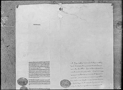 Nepal-Tibet Treaty of 1856, (1 of 4 sections)